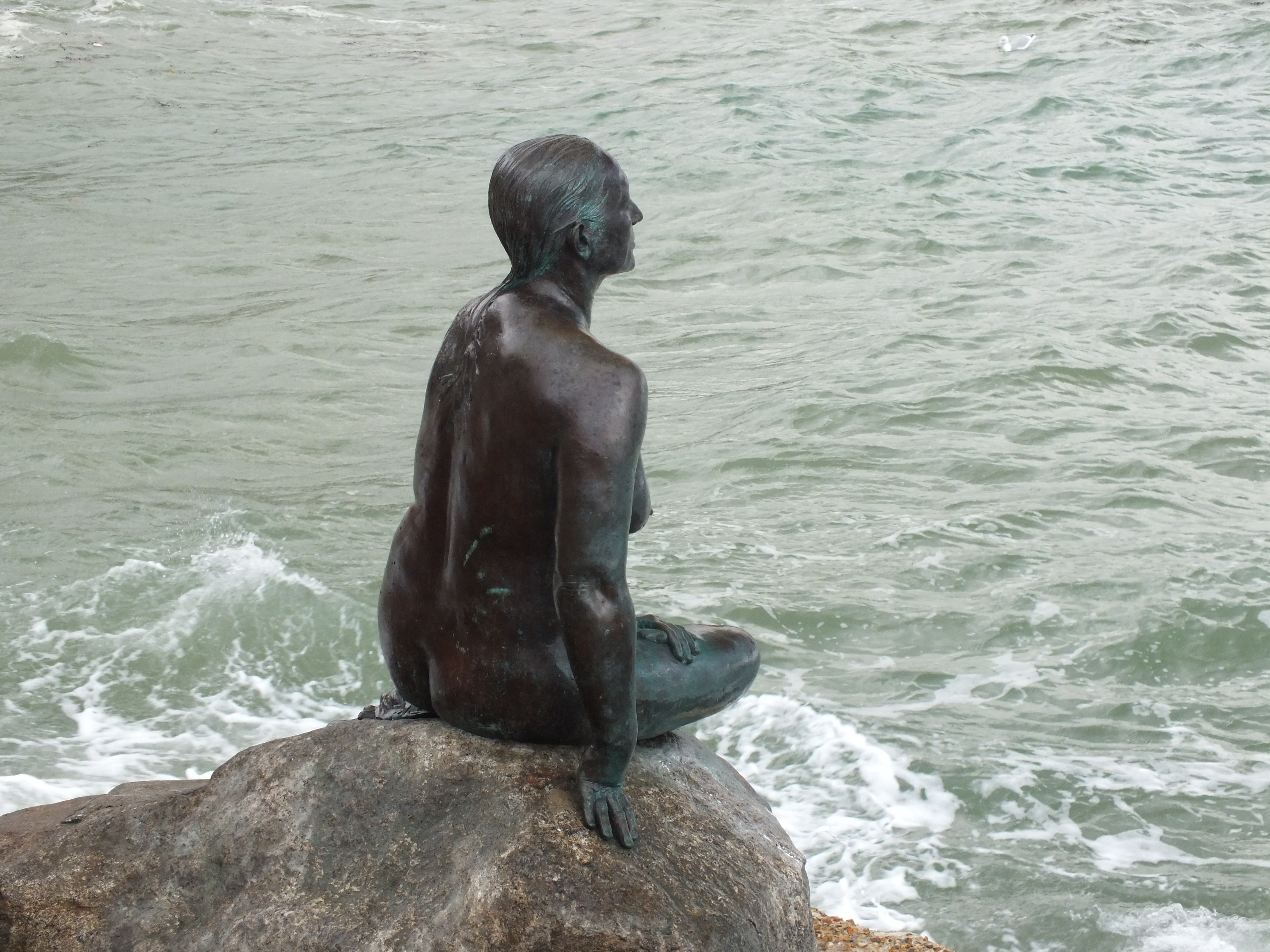 Folkestone Cornelia Parkers 2011, bronze statue of a mermaid- a life cast of Georgina Baker.